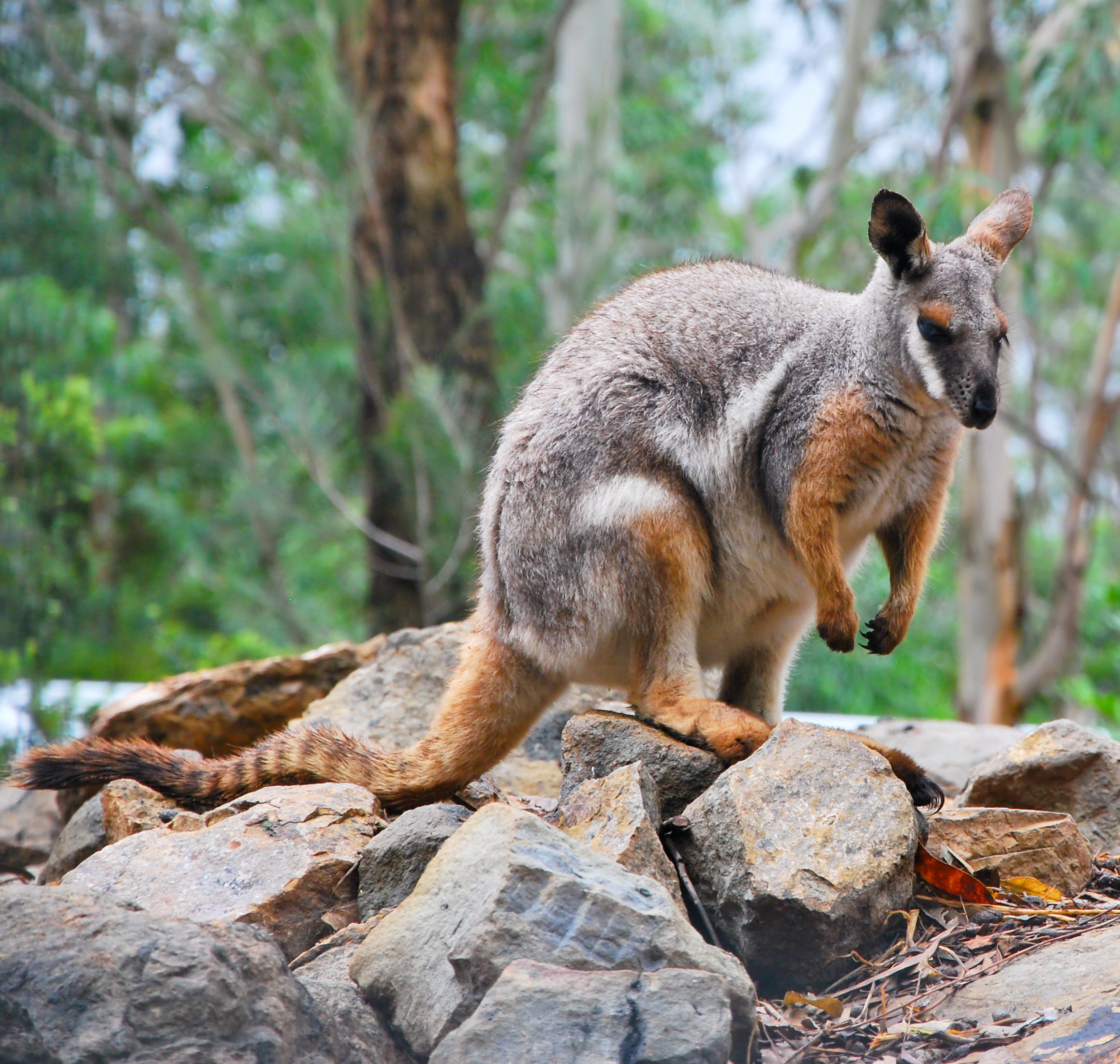 Petrogale xanthopus ; Featherdale Wildlife Park, Australia